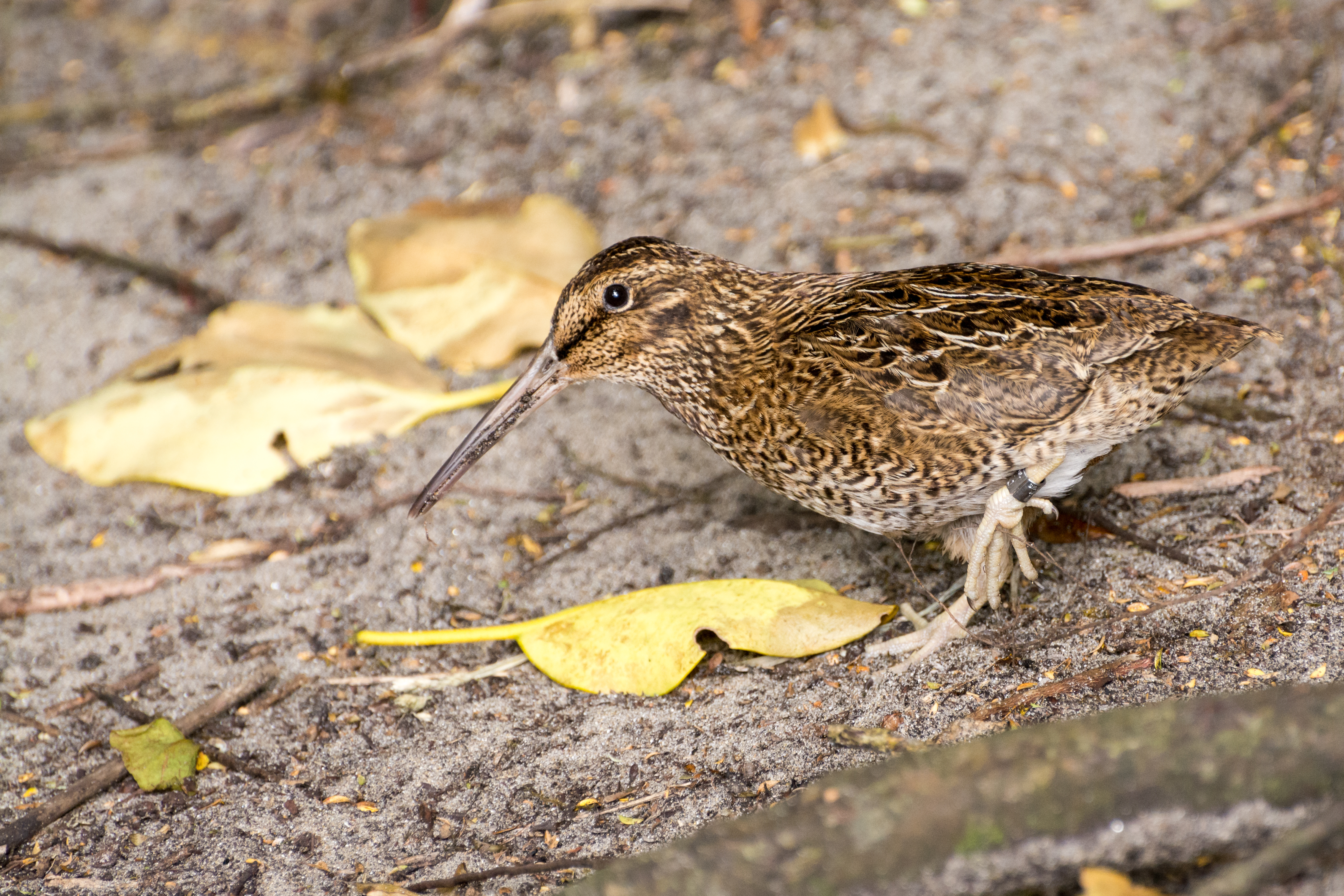 A banded adult Snares snipe, from the first translocation from the Snares Islands to Codfish Island / Whenua Hou. Photo: Jake Osborne